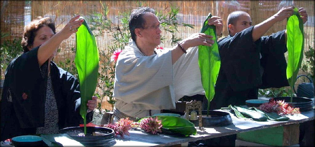 6. Synchronized Oseika called Kaze Odori (Dancing with the Wind), with Banbara Fooks, Ric Bansho Carrasco, and Jesus Bantake Minguez (holds the distinction of the first Banmi Shofu sensei certified by Dr. Ric Bansho Carrasco as 2nd Generation Iemoto. Kaze Odori is a formal performance, usually serving as the last number of a demonstration, where the sensei create an Oseika design synchronously, using the same exact line and floral materials, to the tune of a temple meditation bell and koto music, preferably.